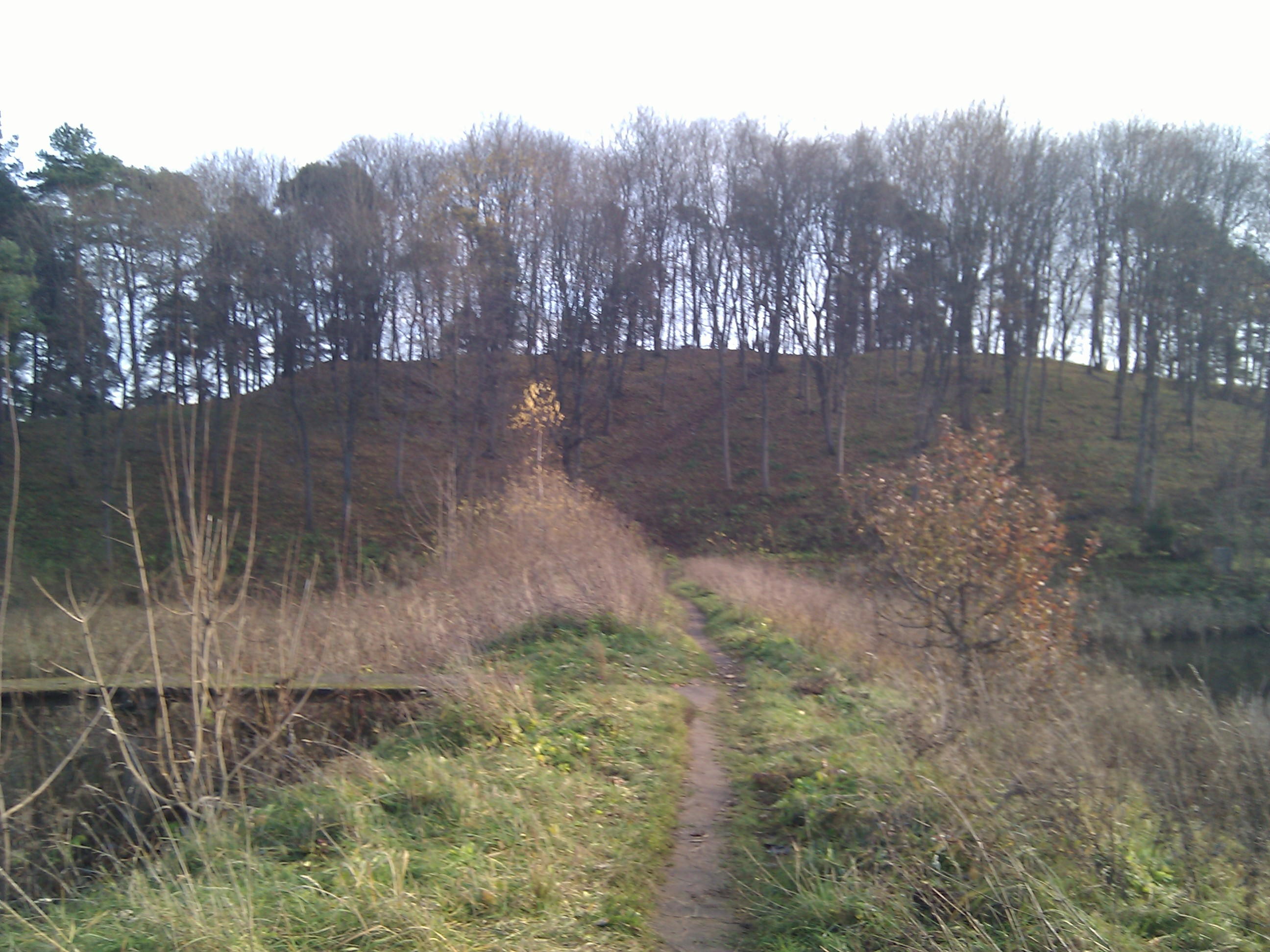 Pilaite Hillfort, Vilnius, Lithuania